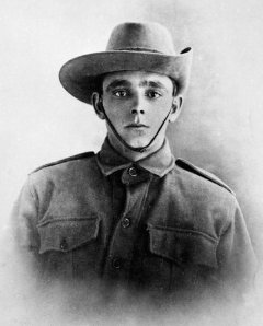 John Leak VC (1892 - 20 October 1972) ID Number: P02939.009 Physical description: Black & white Summary: c. 1916. Studio portrait of Private John Leak VC, 9th Battalion. Pte Leak was awarded the Victoria Cross for "most conspicuous bravery" on 23 July 1916 at Pozieres. During an enemy attack, Pte Leak ran forward out of a trench under heavy machine gun fire and threw three bombs into the enemy trench. When his party was being driven back by the enemy, he continued to throw bombs and was the last to withdraw at each stage. When reinforcements arrived they were able to recapture the whole trench that had been taken by the enemy. Pte Leak returned to Australia at the end of the war and was discharged on 31 May 1919. Credit line: Donor R Arman Copyright: Copyright expired - public domain Copyright holder: Copyright Expired Related conflict: First World War, 1914-1918